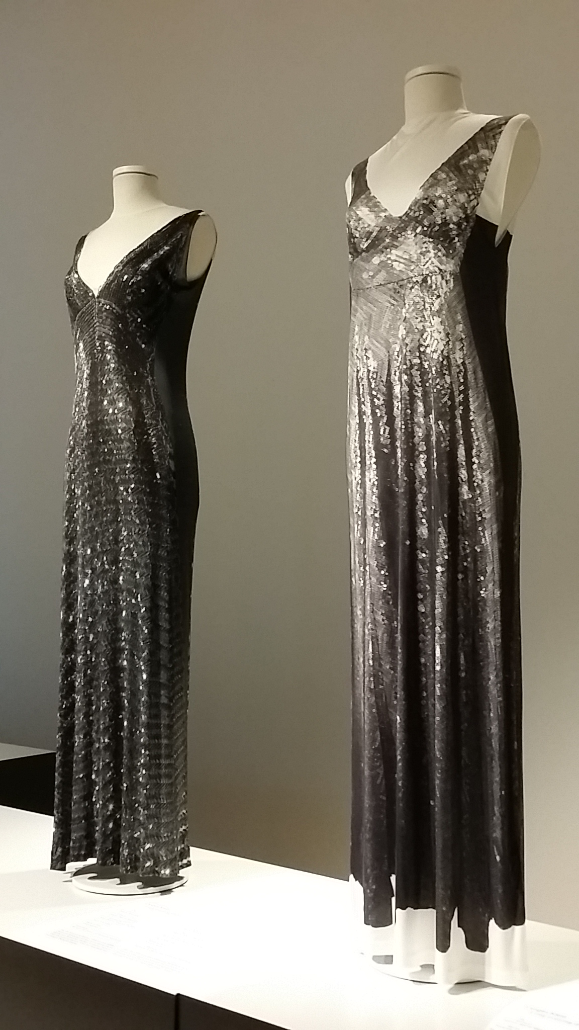 Left: Maison Martin Margiela, Spring-Summer 1996. Viscose jersey printed with trompe l'oeil print of a sequinned evening gown. Right: Maison Martin Margiela for H&M, 2012. Viscose jersey printed with trompe l'oeil print of a sequinned evening gown.